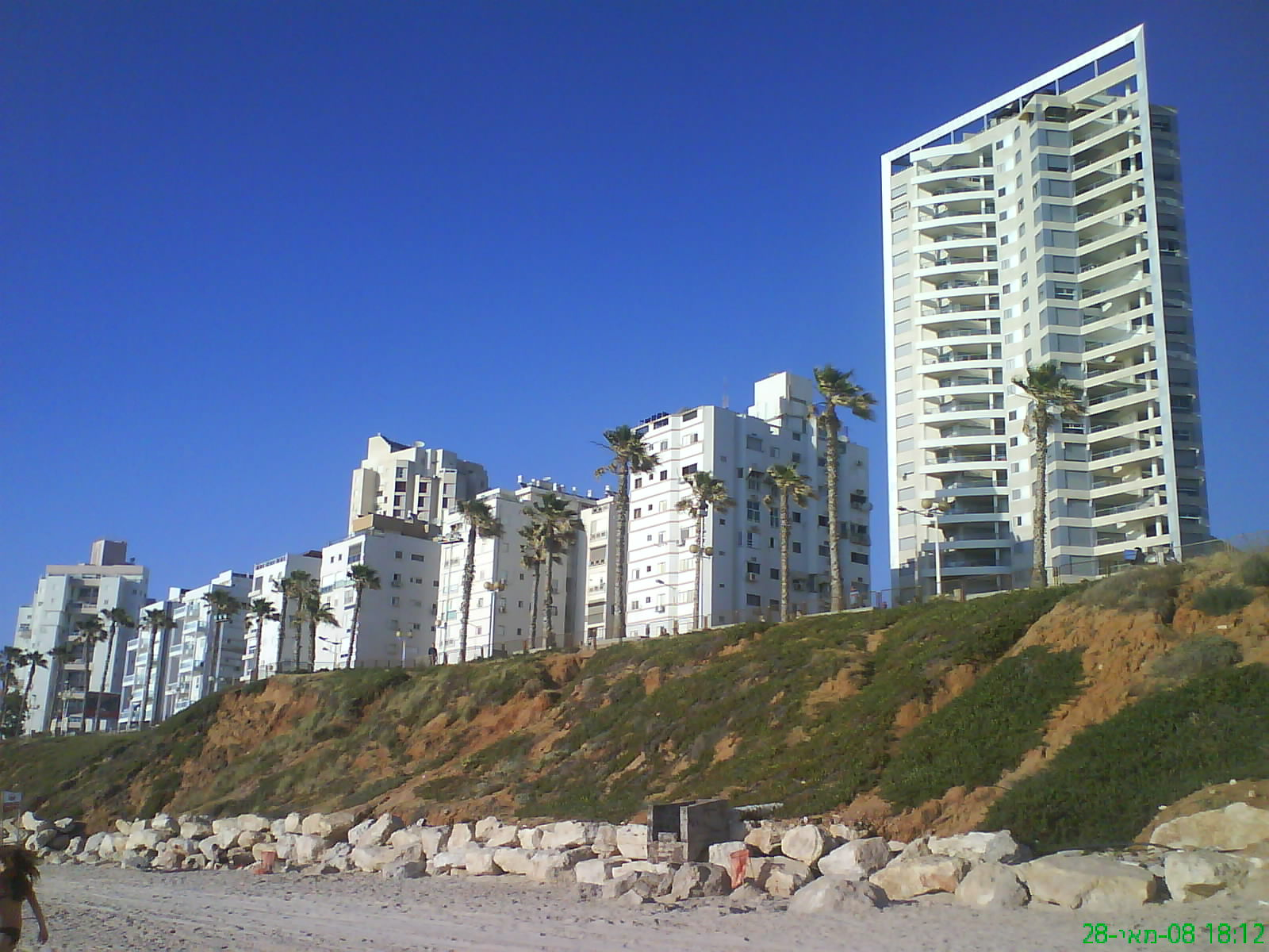 Bat-Yam beach